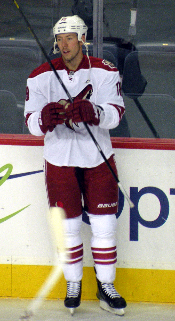 Phoenix Coyotes forward David Moss prior to a National Hockey League game against the Calgary Flames.